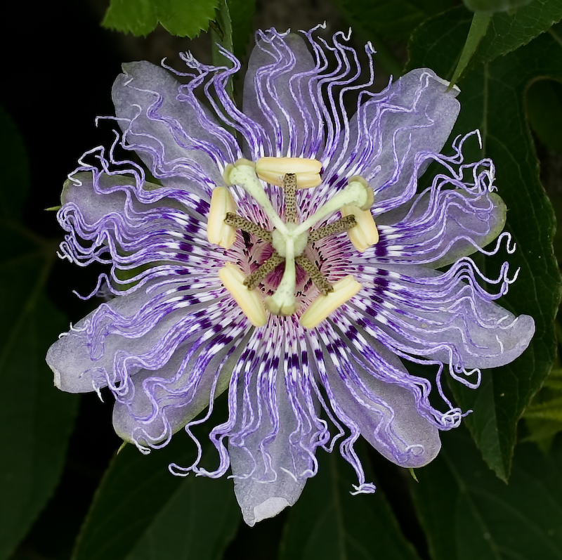 Picture of a Passion flower taken at Wave Hill Gardens, Riverdale, New York.